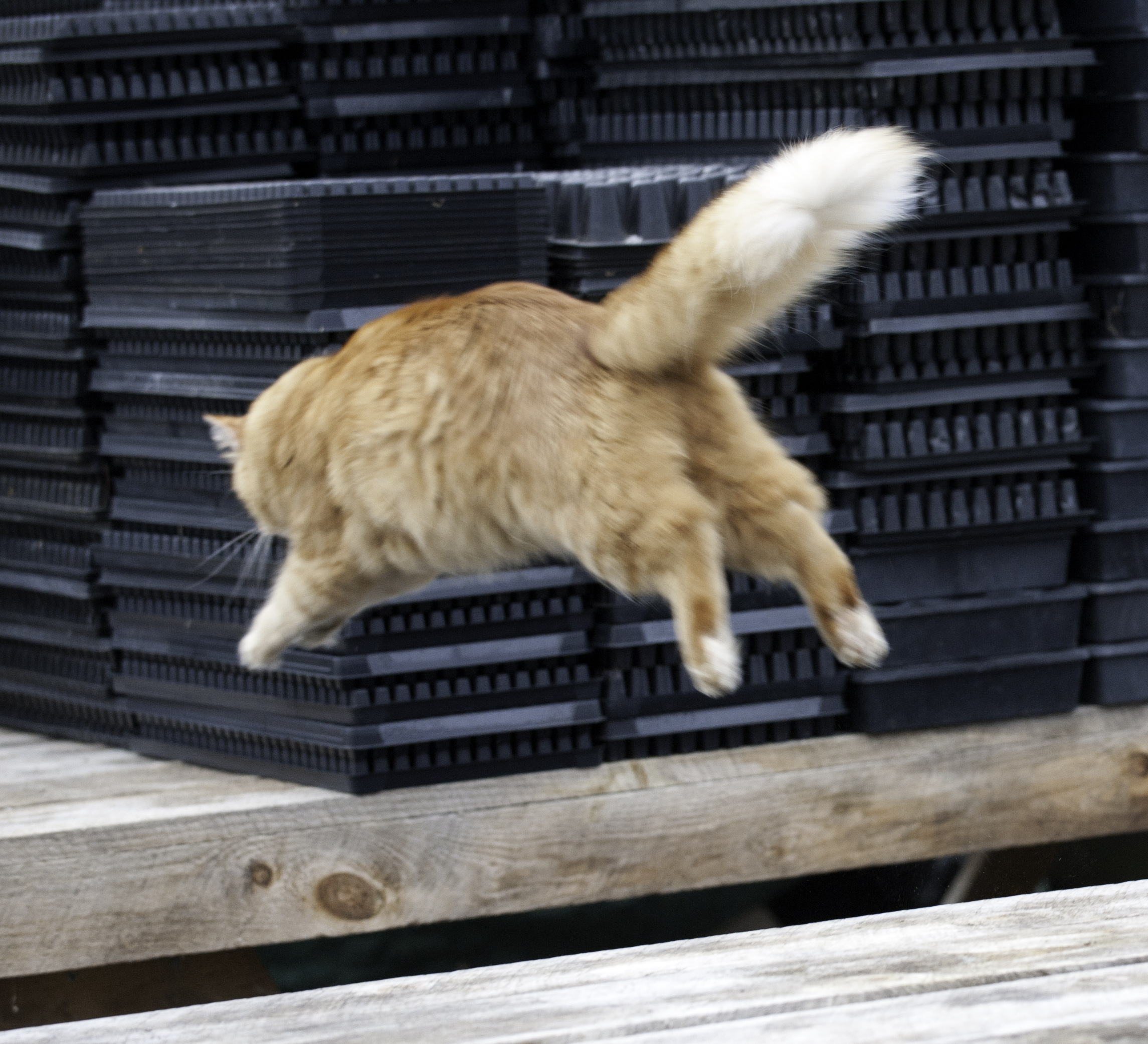 I think I'll go over to that other bench now